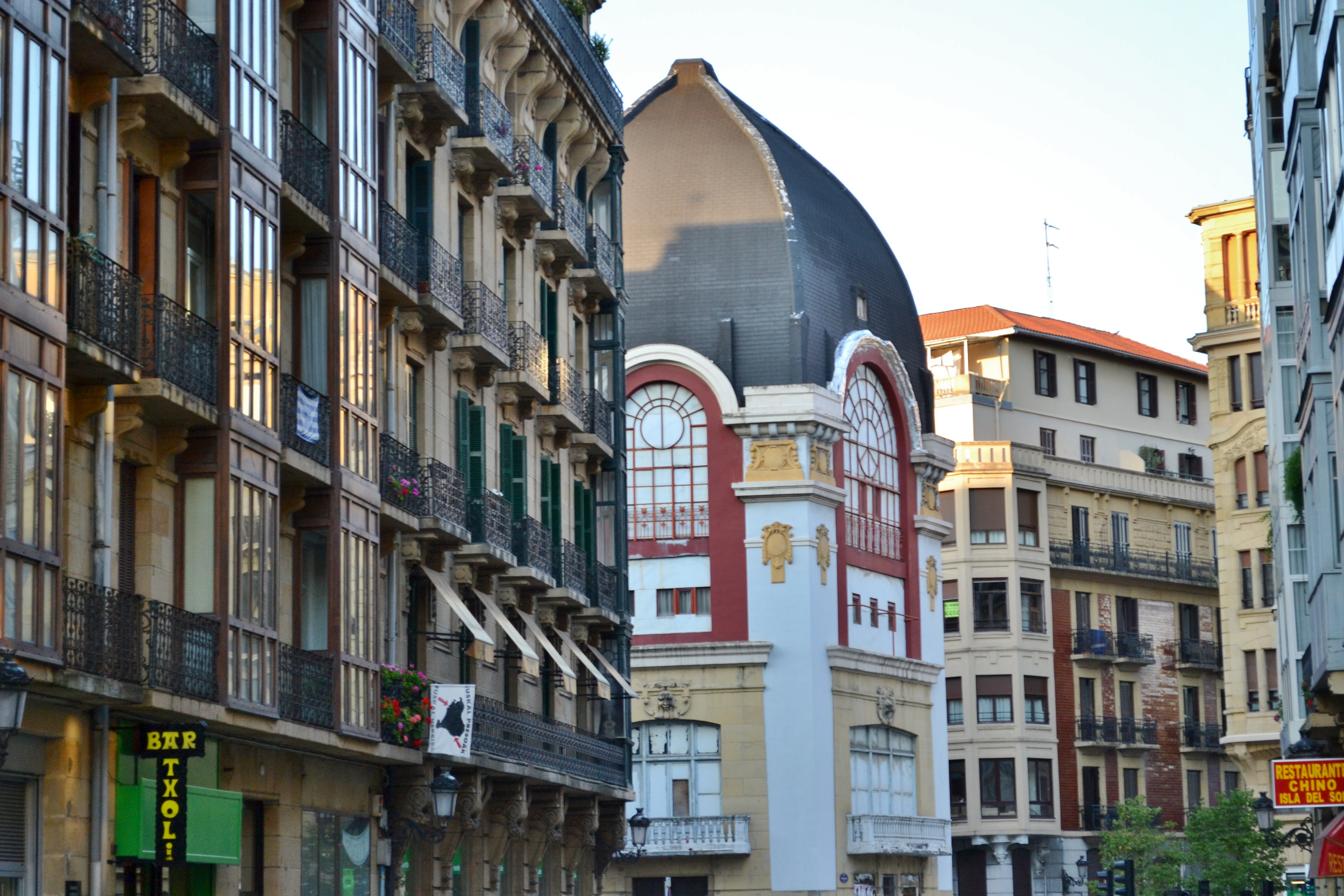 Arte Ederrak theater in Donostia.